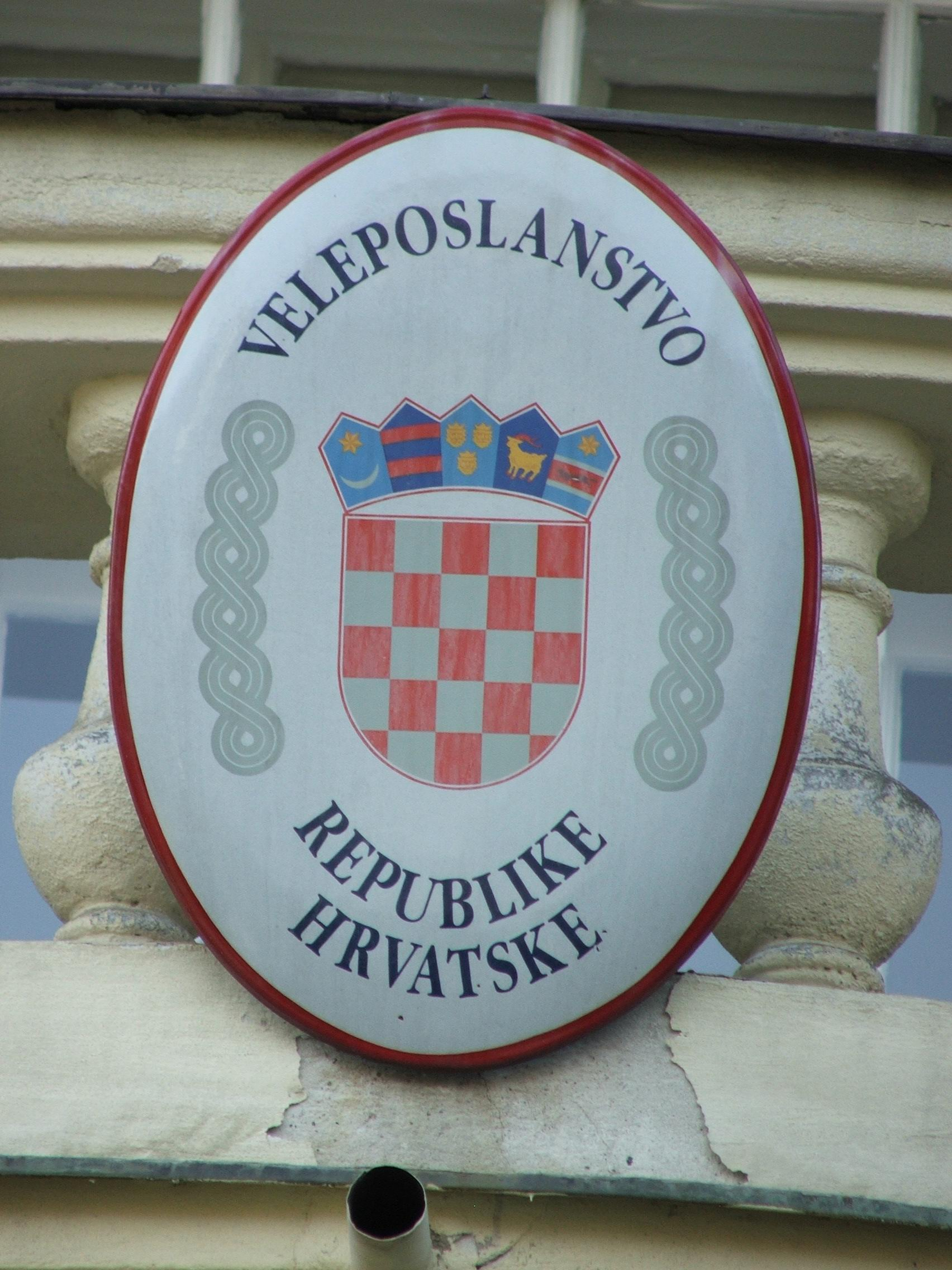 Coat of arms at the Embassy of Croatia in Prague, Czech Republic